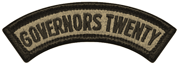 Image of the Army Combat Uniform (ACU) version of the U.S. National Guard's Governor's Twenty Tab